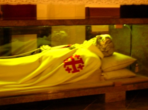 Tomb of Bartolo Longo in the crypt of the Basilica della Vergine del Rosario in Pompei